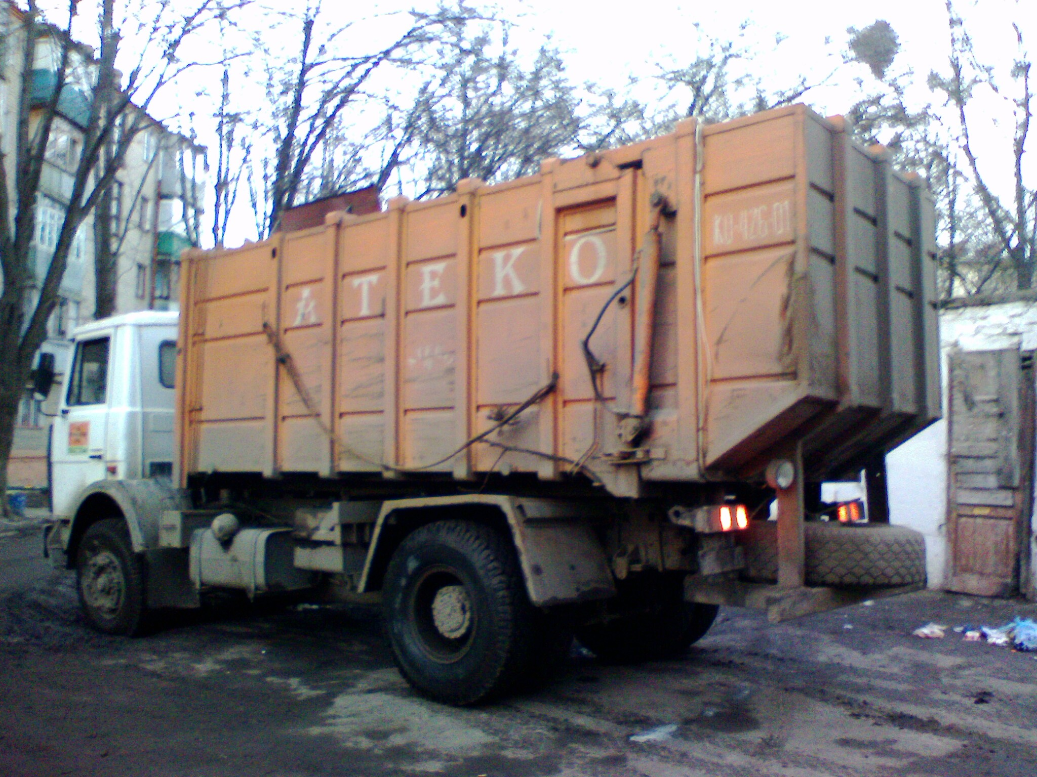 A waste collection vehicle (garbage truck) in Kharkov, Ukraine, taking garbage from the containers away. Leftover garbage can be seen on the ground.